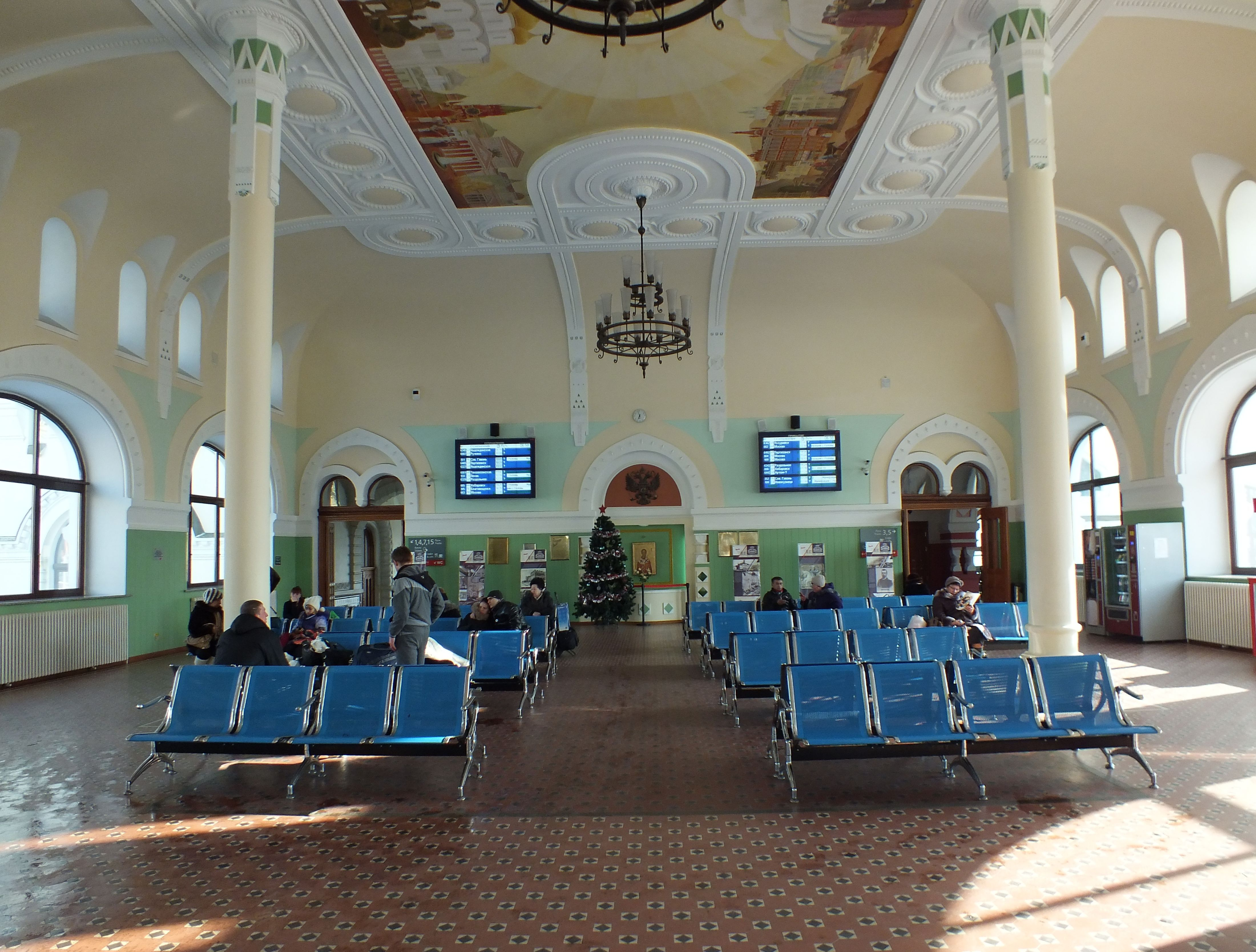 Vladivostok railway station